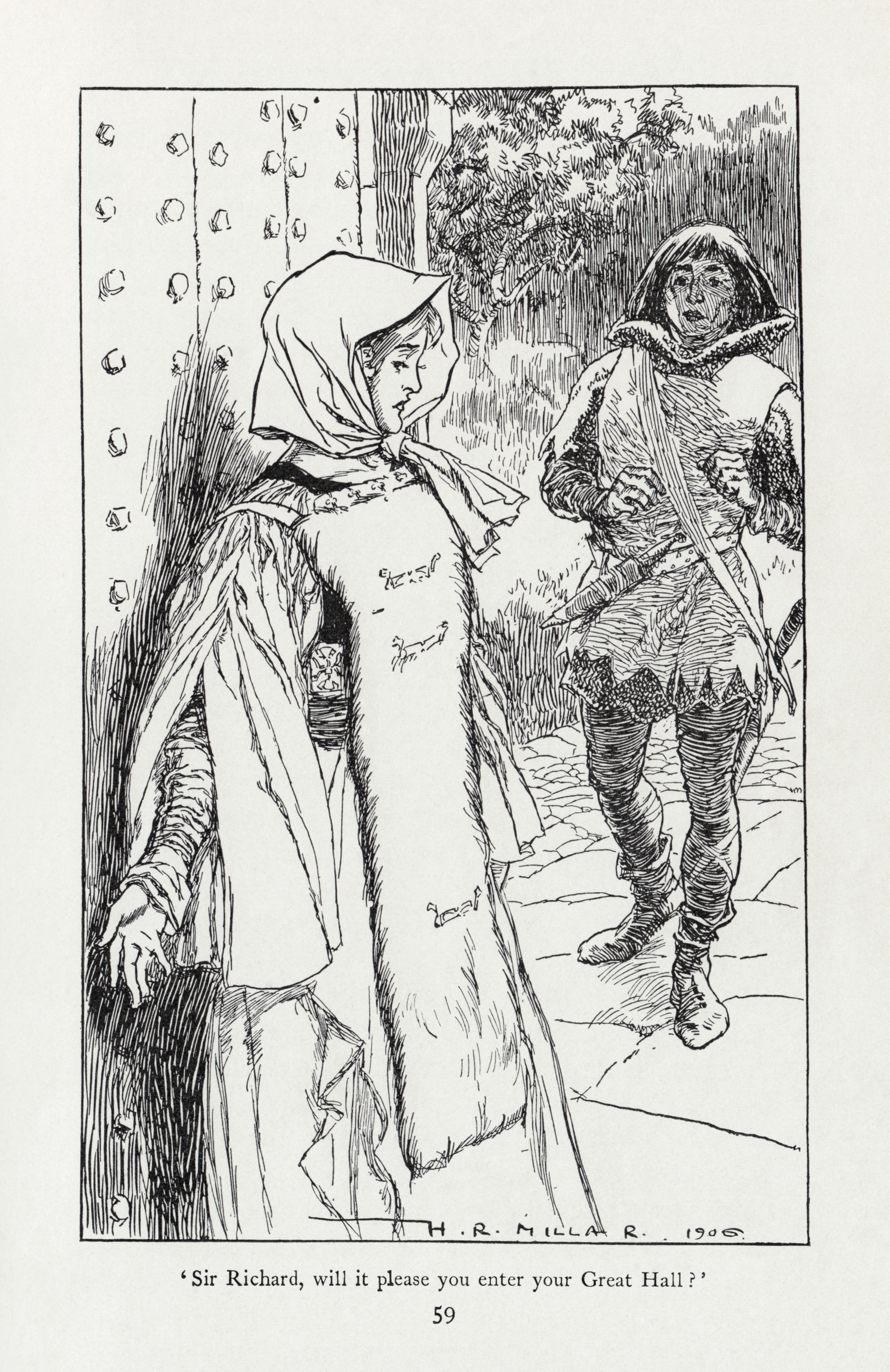 H. R. Millar's 5th illustration to the original edition of Rudyard Kipling's Puck of Pook's Hill, from the chapter "Young Men at the Manor": "'Sir Richard, will it please you enter your Great Hall?'". Note: While not as far from right angles as #4 in the set, this still isn't very rectangular. It would be misleading to fix.